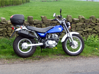 Photograph taken by myself on 20/04/2007. Knobblywobbly 18:35, 22 April 2007 (UTC)